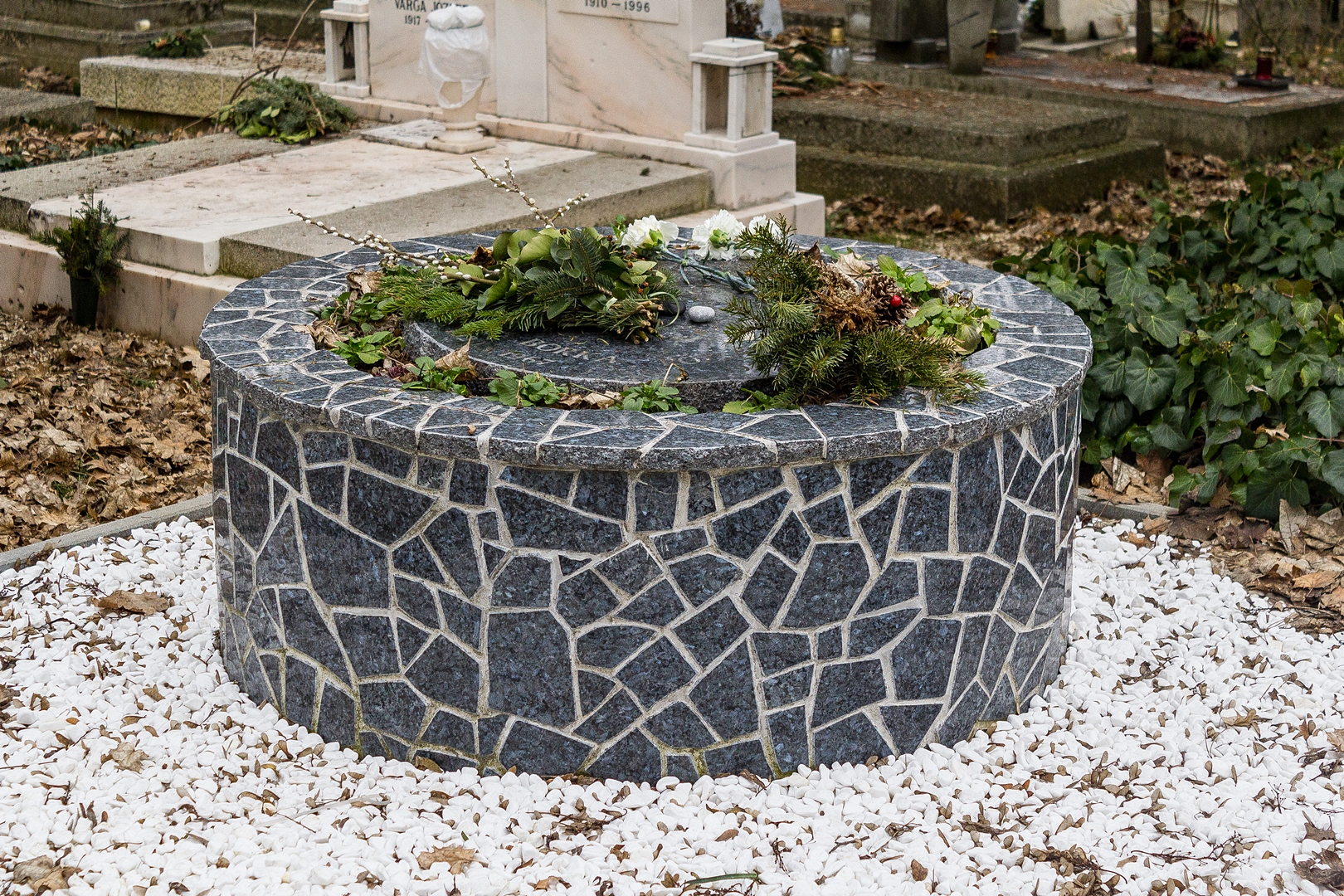 Tomb of Hungarian librarian György Rózsa (1922–2005)